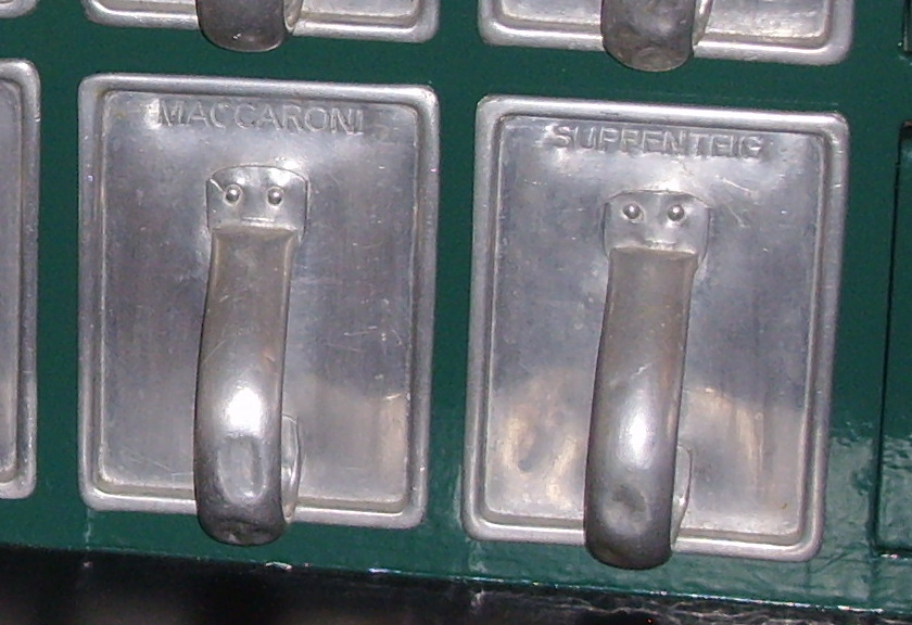 Two drawers for food products labelled (1) Maccaroni (macaroni), (2) Suppenteig (soup dough) in the so-called "Frankfurt kitchen", Ernst-May-Haus, Im Burgfeld 136, Frankfurt am Main-Römerstadt.